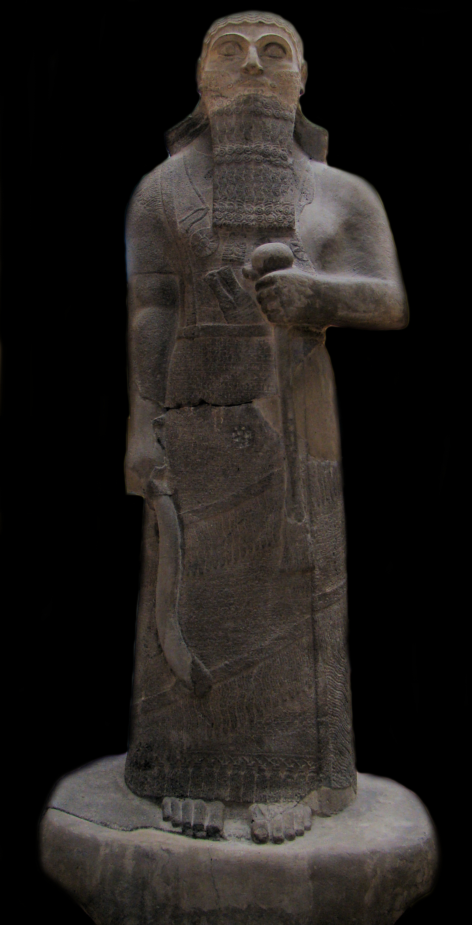 Basalt statue of King Shalmaneser II, 858-824 BCE (Neo-Assyrian Period). Found in Assur (Qala't Sharqat). Today it is displayed in the Istanbul Archaeological Museums, in the Museum of the Ancient Orient section. This text is from a display at this statue, a translation of script on the actual statue: The king gives a brief account of his genealogical titles and characteristics as follows: "Shalmaneser, the great king, the mighty king, king of all the four regions, the powerful and the mighty rival of the princes of the whole universe, the great ones, the kings, son of Assur-Naşirapli, king of universe, king of Assyria, grandson of Tukulti-Ninurta, king of universe, king of Assyria." The inscription continues with describing his campaigns and deeds of the lands of Urartu, Syria, Namri, Que and Tabal, and ends with this: "At that time I rebuilt the walls of my city Ashur from their foundations to their summits. I made an image of my royal self and set it up by the metal-workers gate."